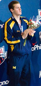 Tyler Clary in 2009.